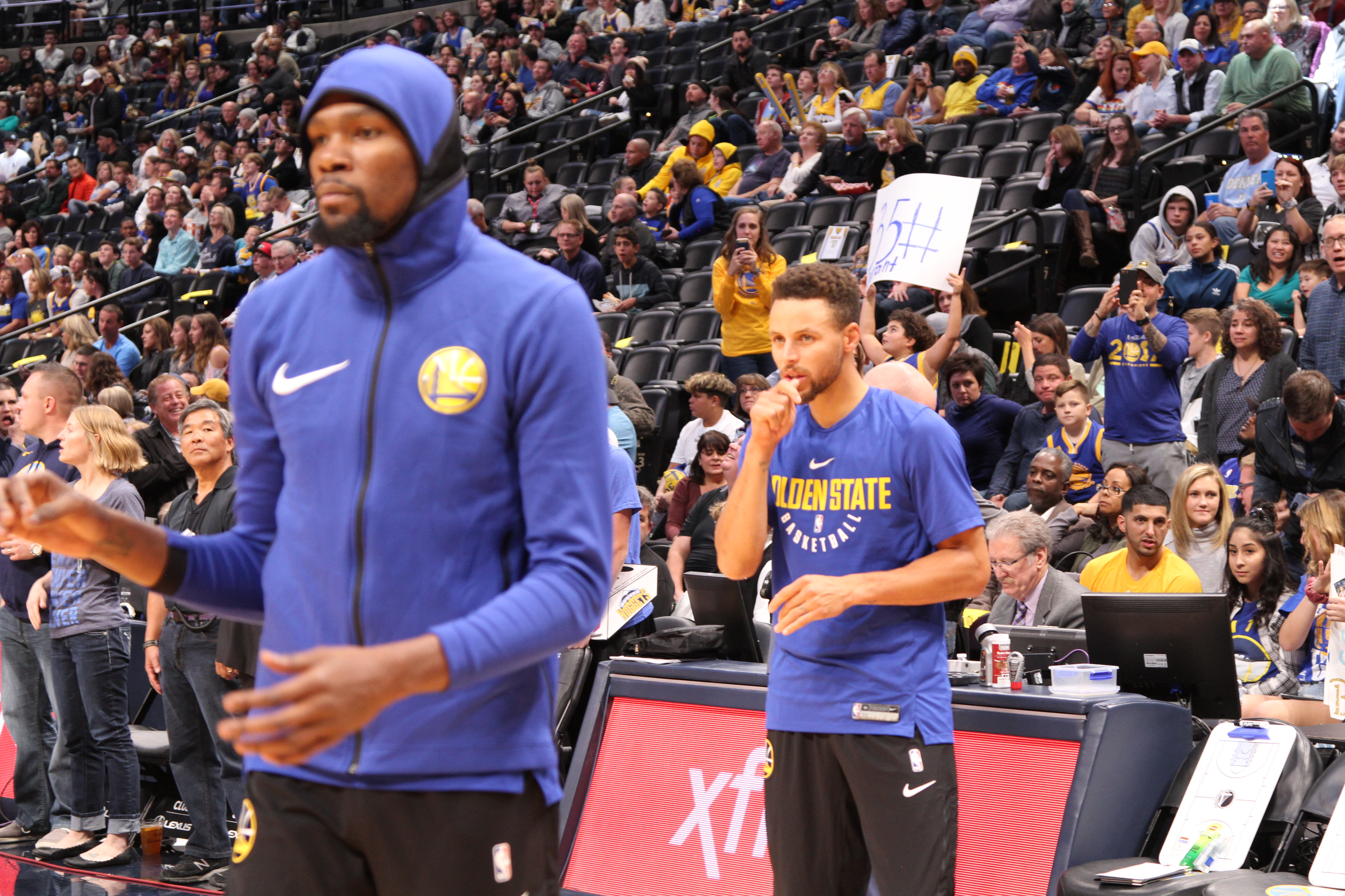 Stephen Curry and Kevin Durant practice prior to the start of a game in Denver, Colorado.